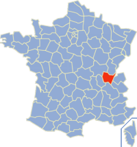 Localisation of the French Ain departement.